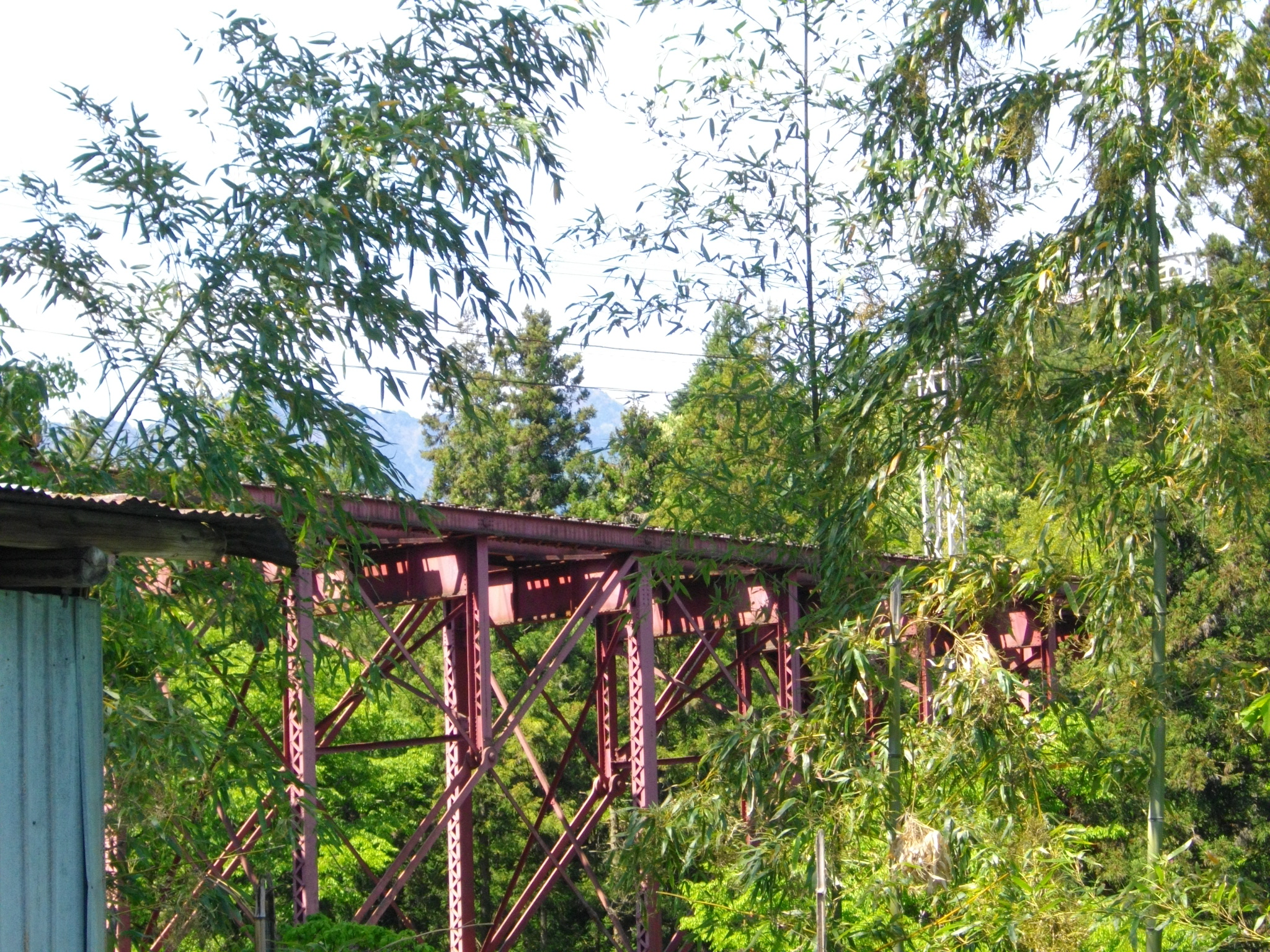 Chichibu Railway Urayamagawa Bridge